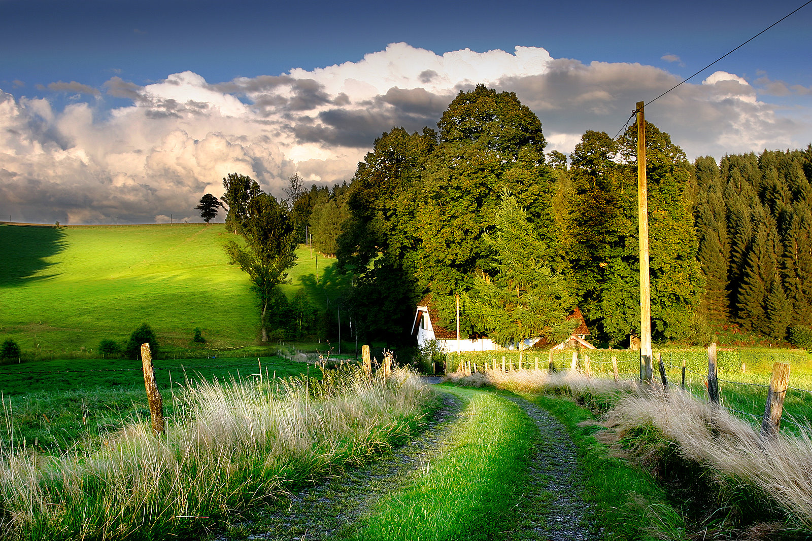 Radevormwald - Hönderbruch